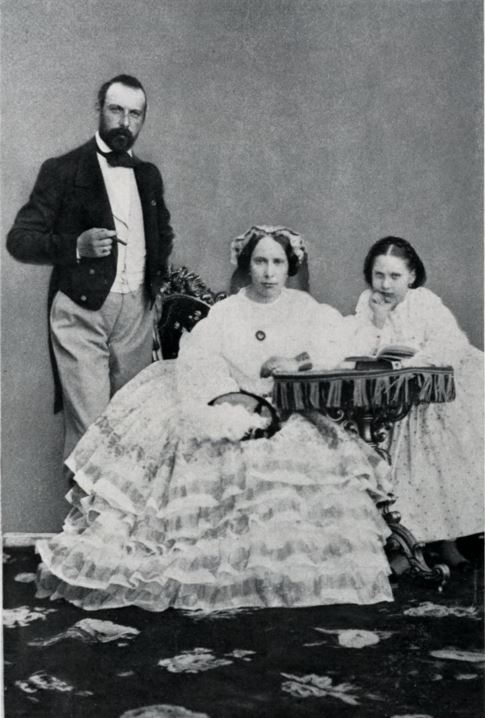 The swedish-norwegian king Carl XV, his wife queen Louise, and their daughter princess Louise (born 1851). Year not known.